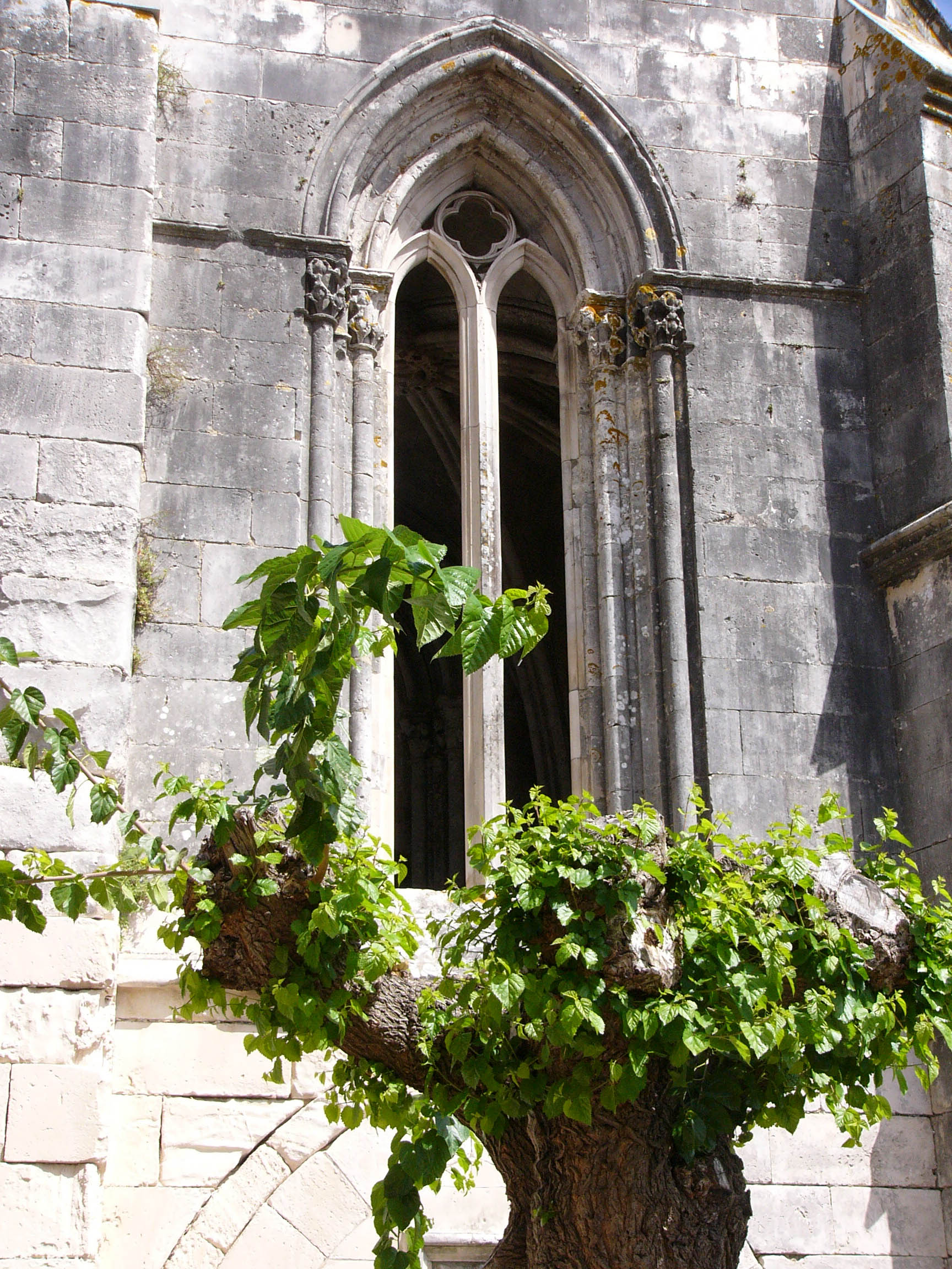 Gothic window (15th century) of the Chapel of the Castle of Leiria, Portugal